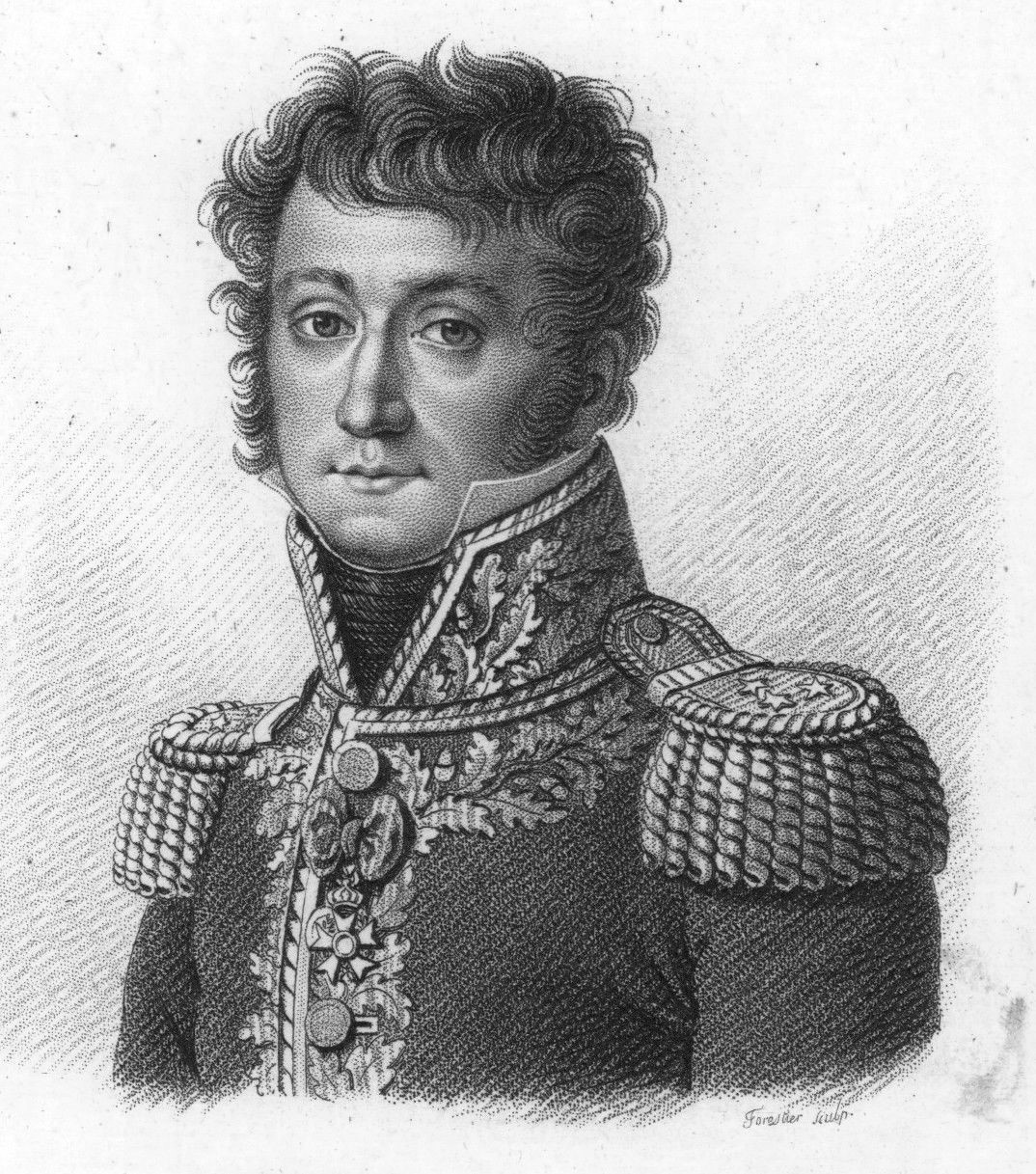 Général Gilbert Désiré Joseph Bachelu - The ebay page describes the artist as Forestier and the creation date 1818.